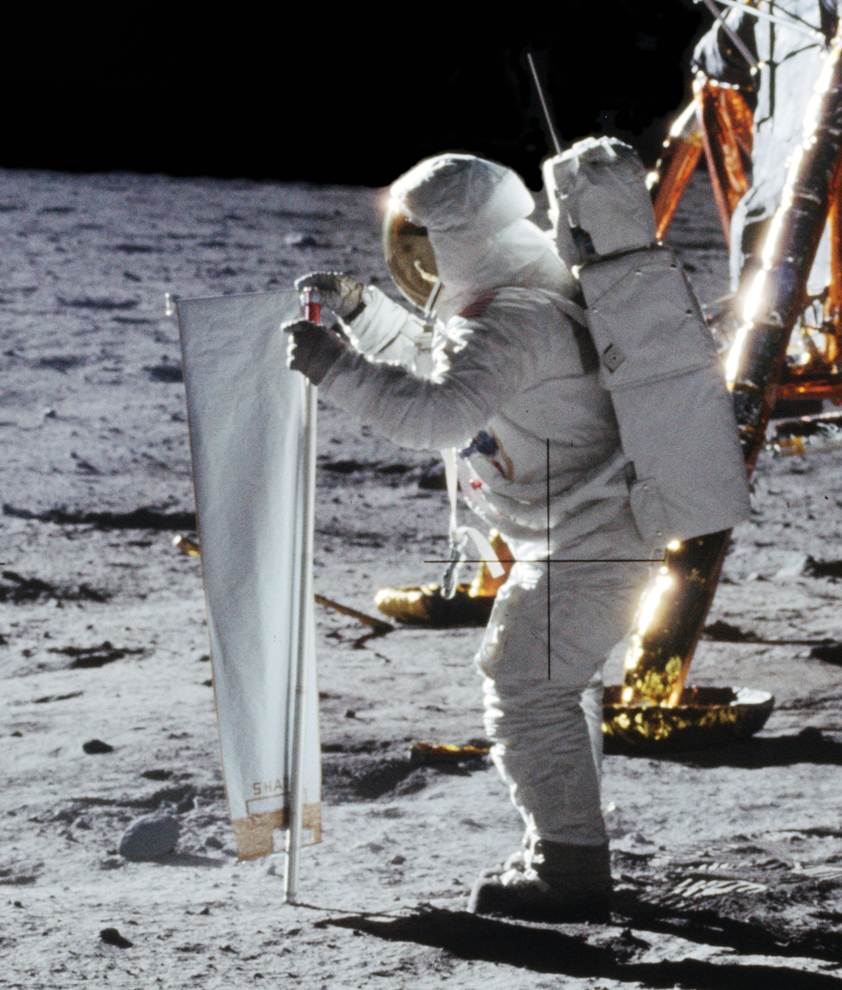 Astronaut: Detail of the landing scenery of Apollo 11 (of AS11-40-5872.jpg)